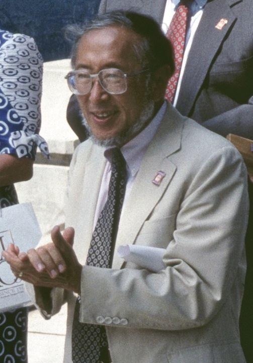 Bill Naito, of Portland, Oregon, at a ceremony celebrating the arrival of the first of four trolley cars built by the Gomaco Trolley Company for use on the Portland Vintage Trolley service.